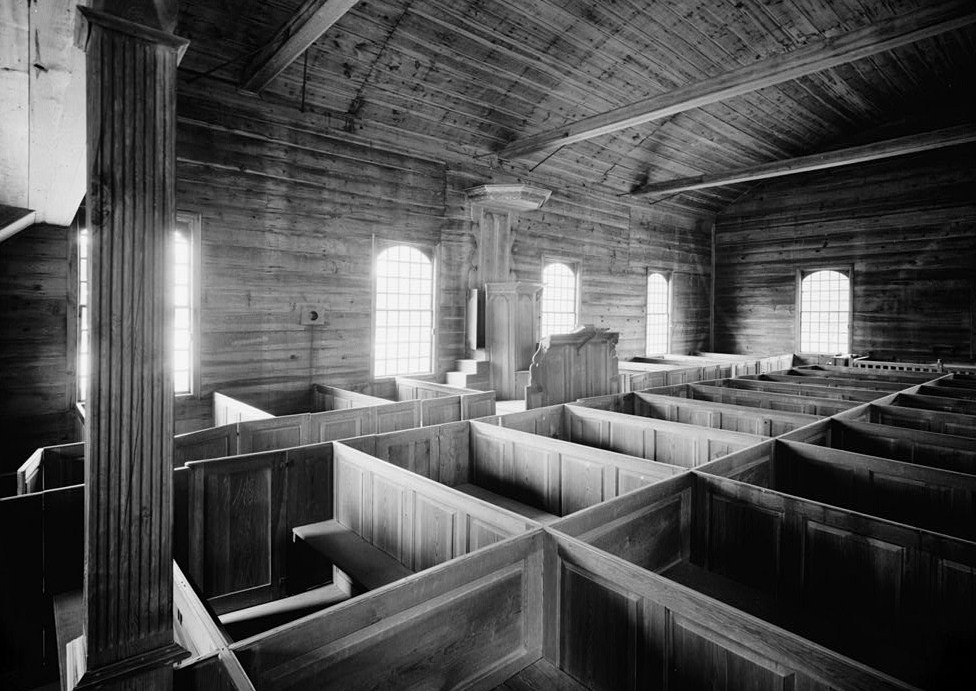 Christ Church, State Roads 465 & 465-A, Laurel vicinity (Sussex County, Delaware) cropped This file comes from the Historic American Buildings Survey (HABS), Historic American Engineering Record (HAER) or Historic American Landscapes Survey (HALS). These are programs of the National Park Service established for the purpose of documenting historic places. Records consist of measured drawings, archival photographs, and written reports. When reusing please credit: Library of Congress, Prints & Photographs Division, DEL,3-LAU.V,1-8 This tag does not indicate the copyright status of the attached work. A normal copyright tag is still required. See Commons:Licensing. This work is in the public domain in the United States because it is a work prepared by an officer or employee of the United States Government as part of that person’s official duties under the terms of Title 17, Chapter 1, Section 105 of the US Code. Note: This only applies to original works of the Federal Government and not to the work of any individual U.S. state, territory, commonwealth, county, municipality, or any other subdivision. This template also does not apply to postage stamp designs published by the United States Postal Service since 1978. (See § 313.6(C)(1) of Compendium of U.S. Copyright Office Practices). It also does not apply to certain US coins; see The US Mint Terms of Use. This file has been identified as being free of known restrictions under copyright law, including all related and neighboring rights.